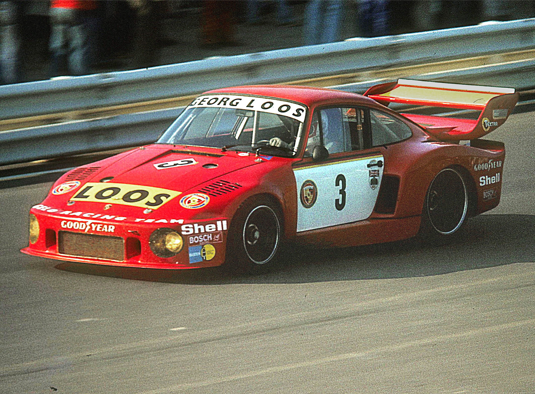 Porsche 935 1977 with Rolf Stommelen at 1000 km race on Nürburgring.